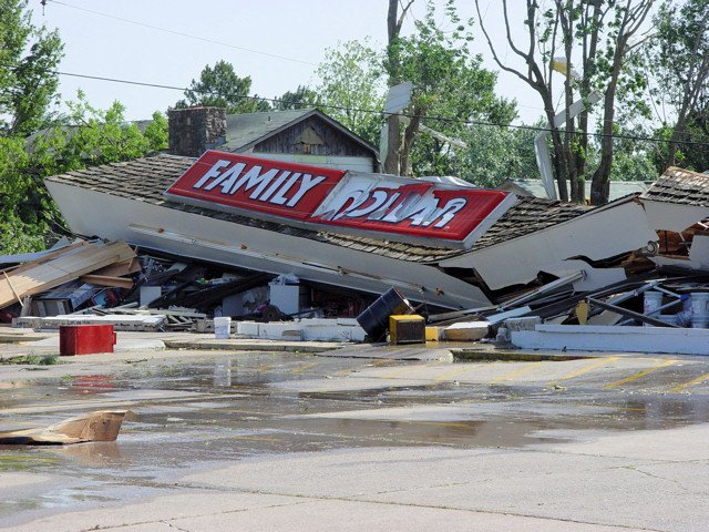 An EF3 tornado caused major damage across portions of Lonoke, Prairie and Arkansas Counties particularly in the town of Stuttgart east of Little Rock. Among the structures damaged, this business was destroyed by the tornado on May 10, 2008.